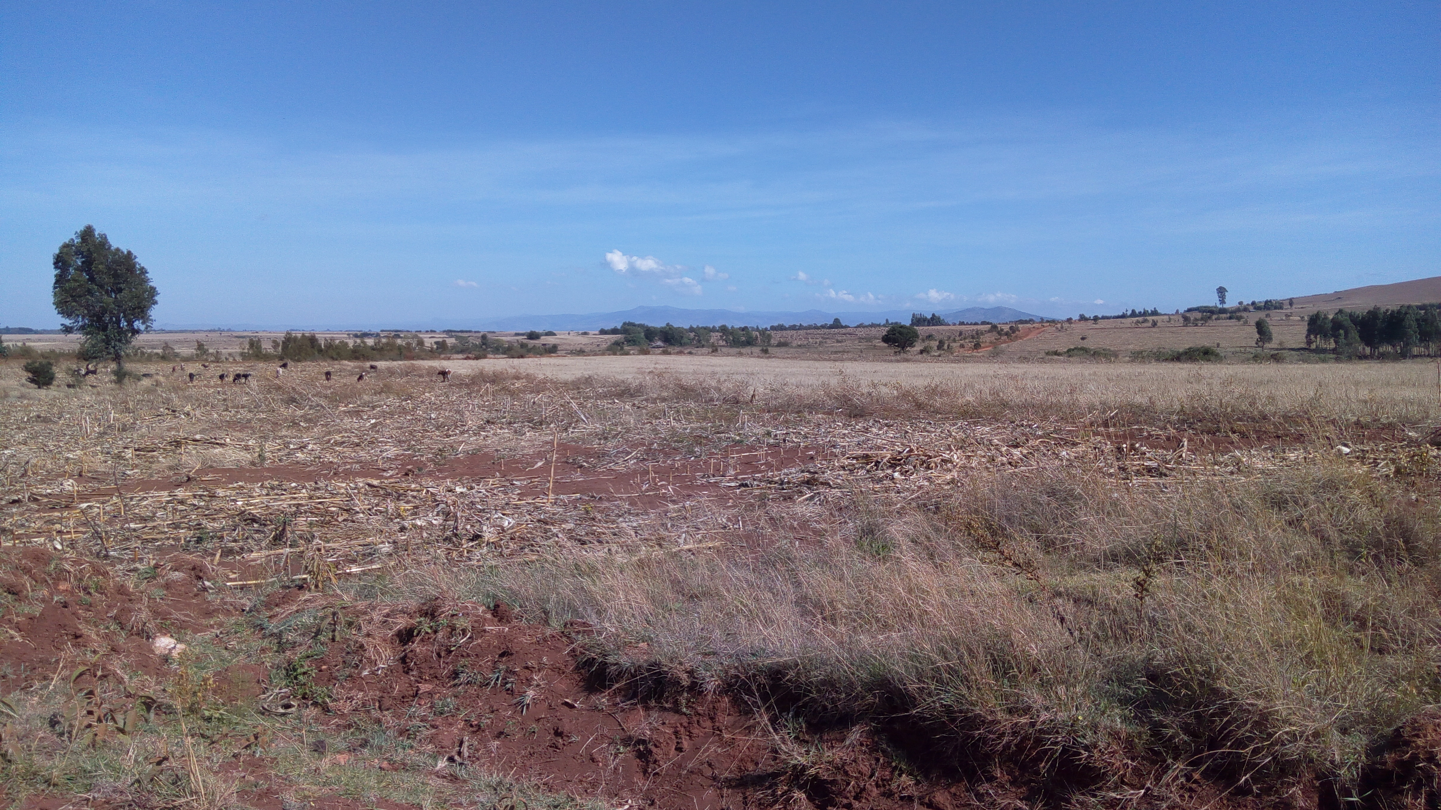 cherangany hills as seen from uasi ngishu